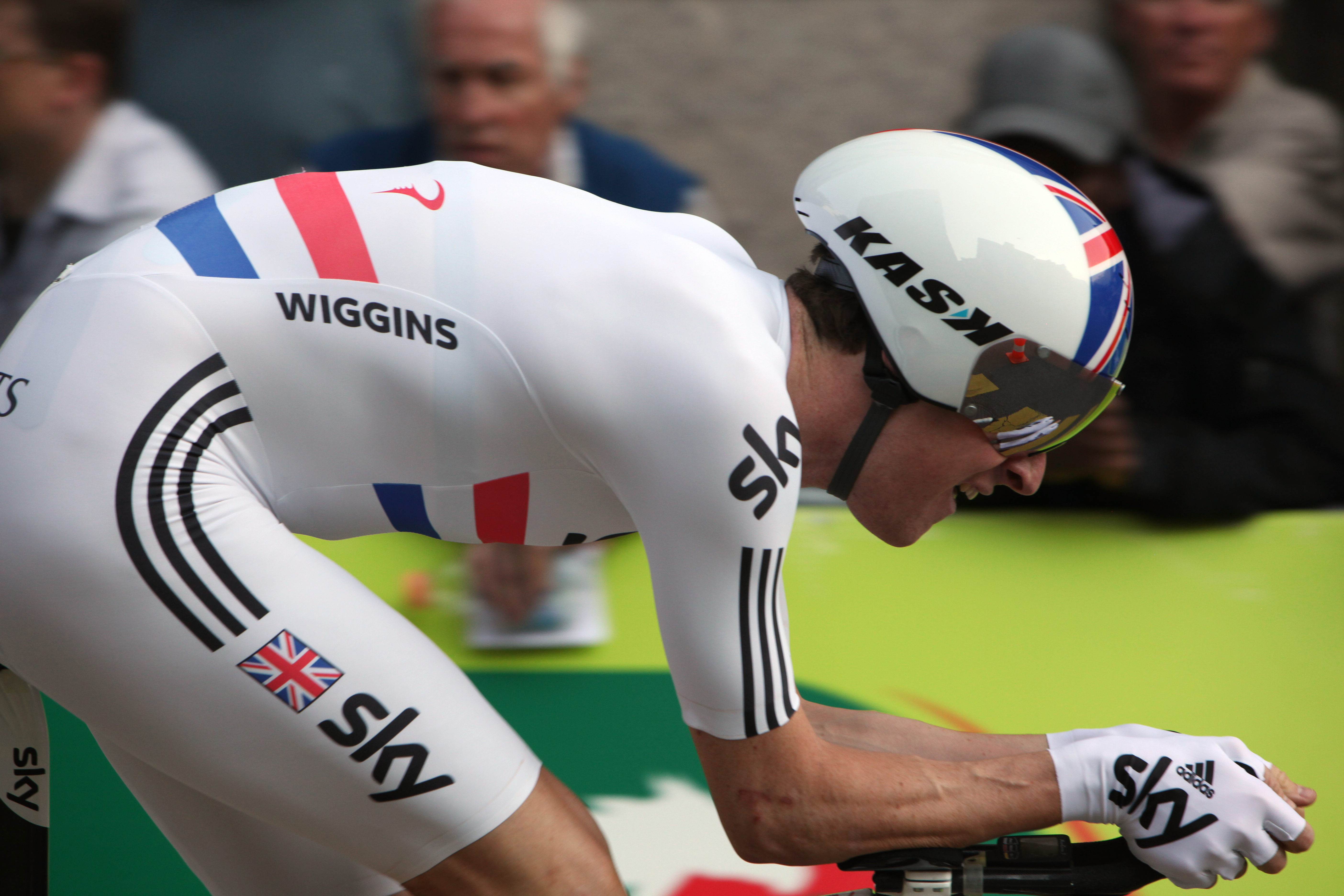 Bradley Wiggins at the prologue of the Tour de Romandie 2011